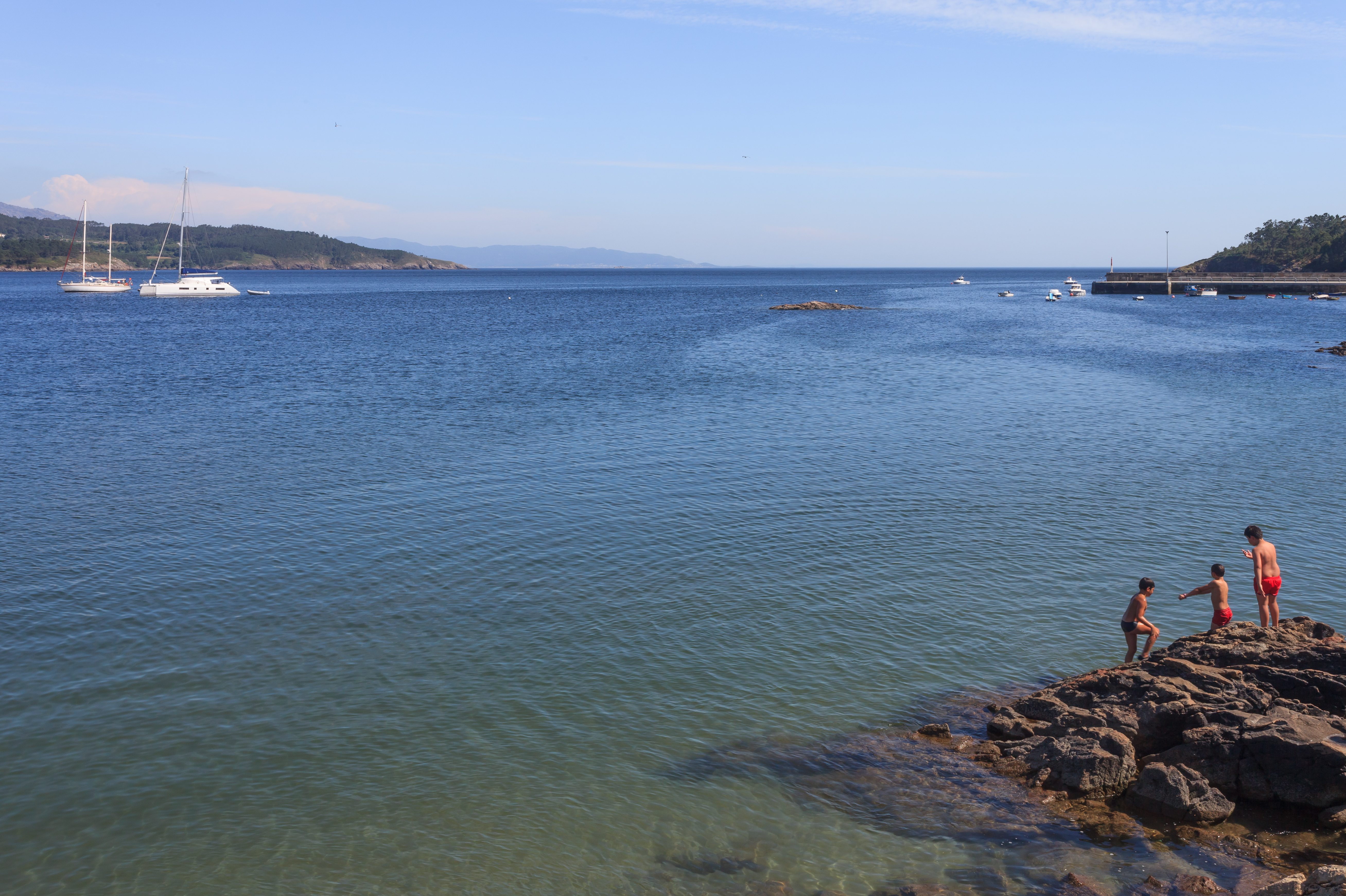 Sardiñeiro, Fisterra, Galicia (Spain).